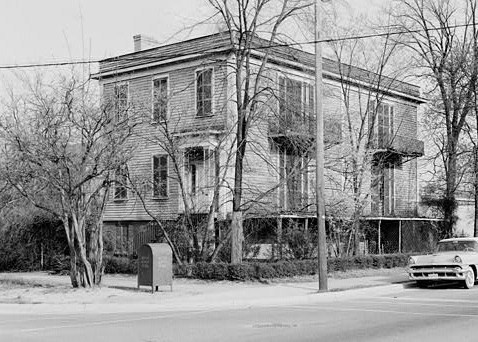 Crawford-Clarkson House, Bull & Blanding Streets, Columbia (Richland County, South Carolina) - cropped This image or media file contains material based on a work of a United States Department of the Interior employee, created as part of that person's official duties. As a work of the U.S. federal government, such work is in the public domain in the United States. See the Department of the Interior copyright policy for more information. This file comes from the Historic American Buildings Survey (HABS), Historic American Engineering Record (HAER) or Historic American Landscapes Survey (HALS). These are programs of the National Park Service established for the purpose of documenting historic places. Records consist of measured drawings, archival photographs, and written reports. When reusing please credit: Library of Congress, Prints & Photographs Division, SC,40-COLUM,4-1 This tag does not indicate the copyright status of the attached work. A normal copyright tag is still required. See Commons:Licensing. This work is in the public domain in the United States because it is a work prepared by an officer or employee of the United States Government as part of that person’s official duties under the terms of Title 17, Chapter 1, Section 105 of the US Code. Note: This only applies to original works of the Federal Government and not to the work of any individual U.S. state, territory, commonwealth, county, municipality, or any other subdivision. This template also does not apply to postage stamp designs published by the United States Postal Service since 1978. (See § 313.6(C)(1) of Compendium of U.S. Copyright Office Practices). It also does not apply to certain US coins; see The US Mint Terms of Use. This file has been identified as being free of known restrictions under copyright law, including all related and neighboring rights. Object location34° 00′ 39″ N, 81° 02′ 01″ W